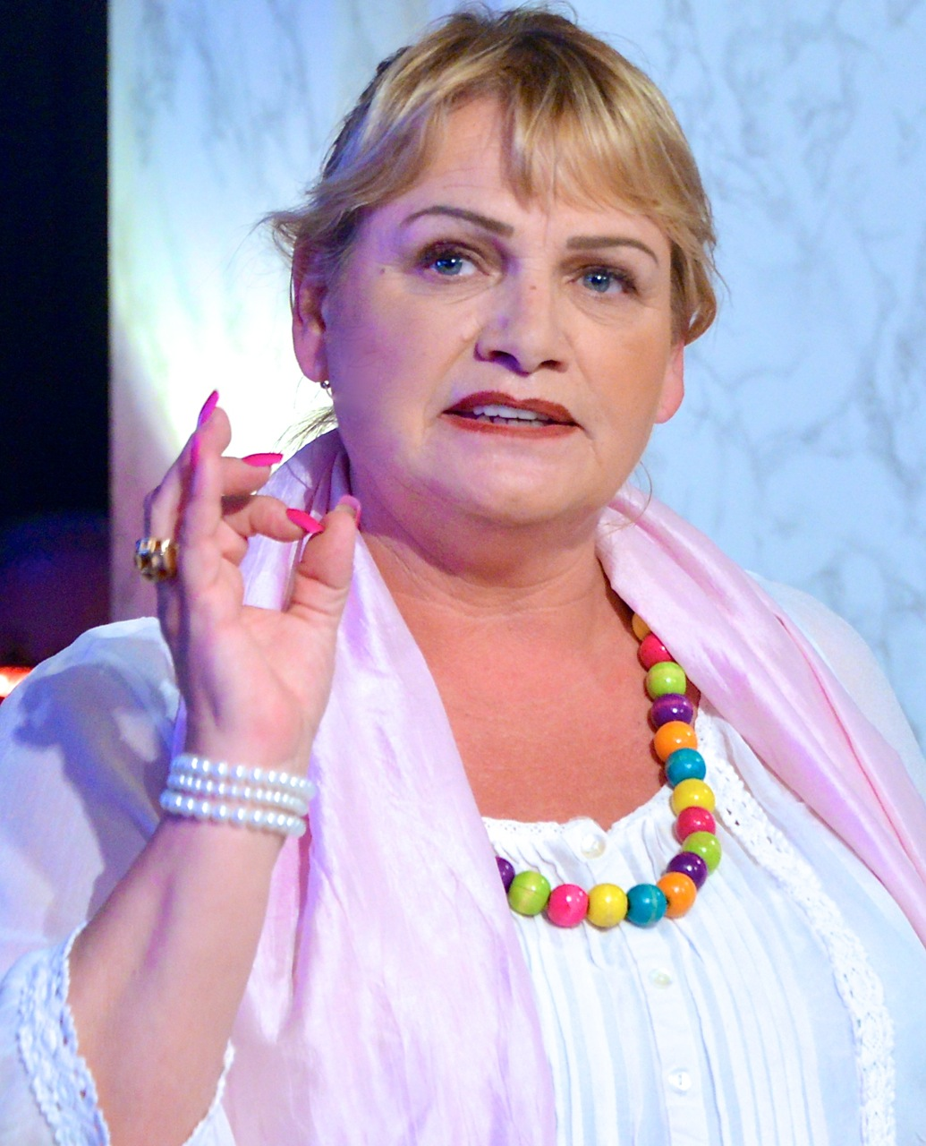 Soraya Post, Feminist Initiative, in a panel discussion May 21, 2014 for the European elections.